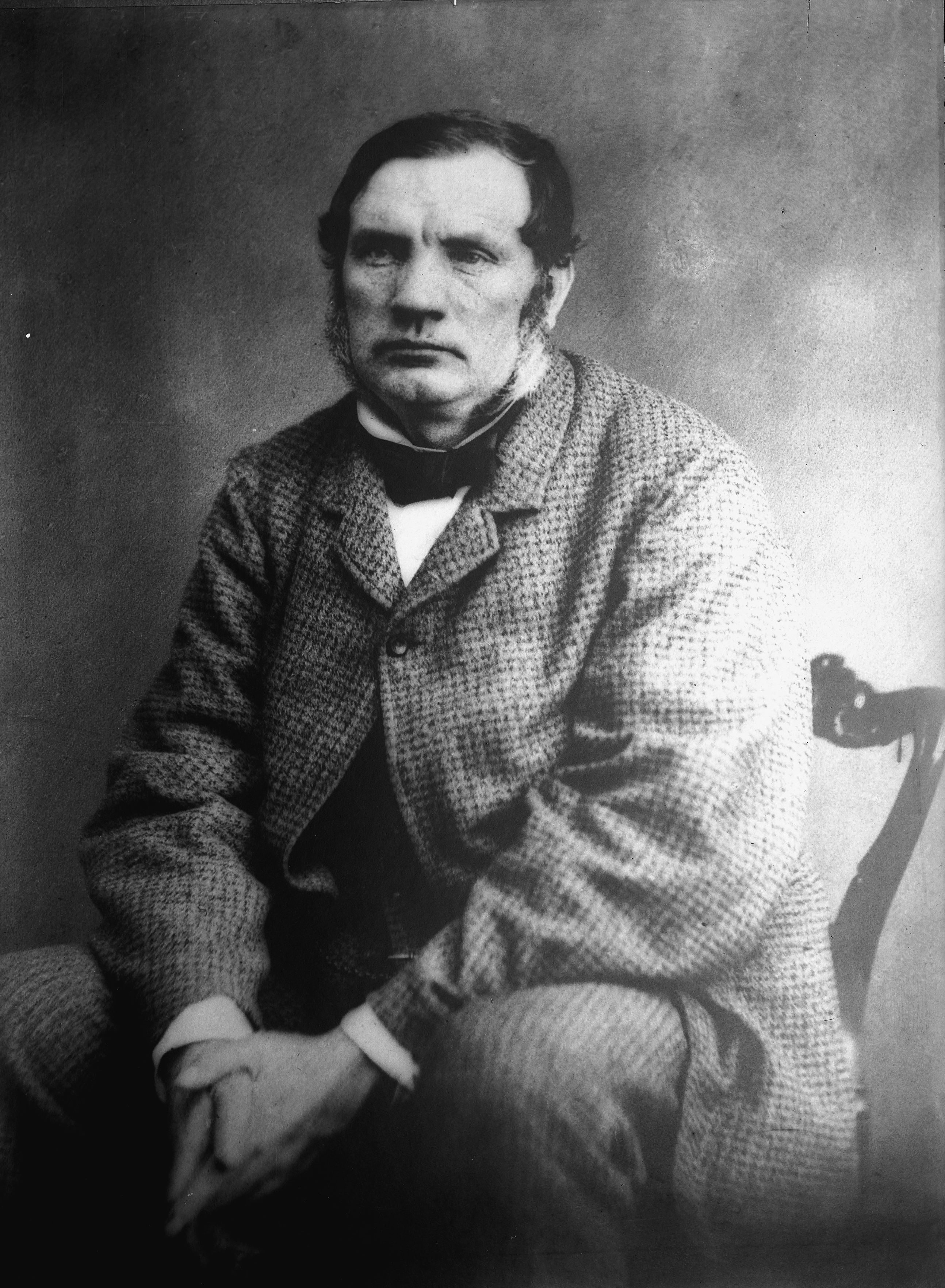 Donald McLean, circa 1870s.